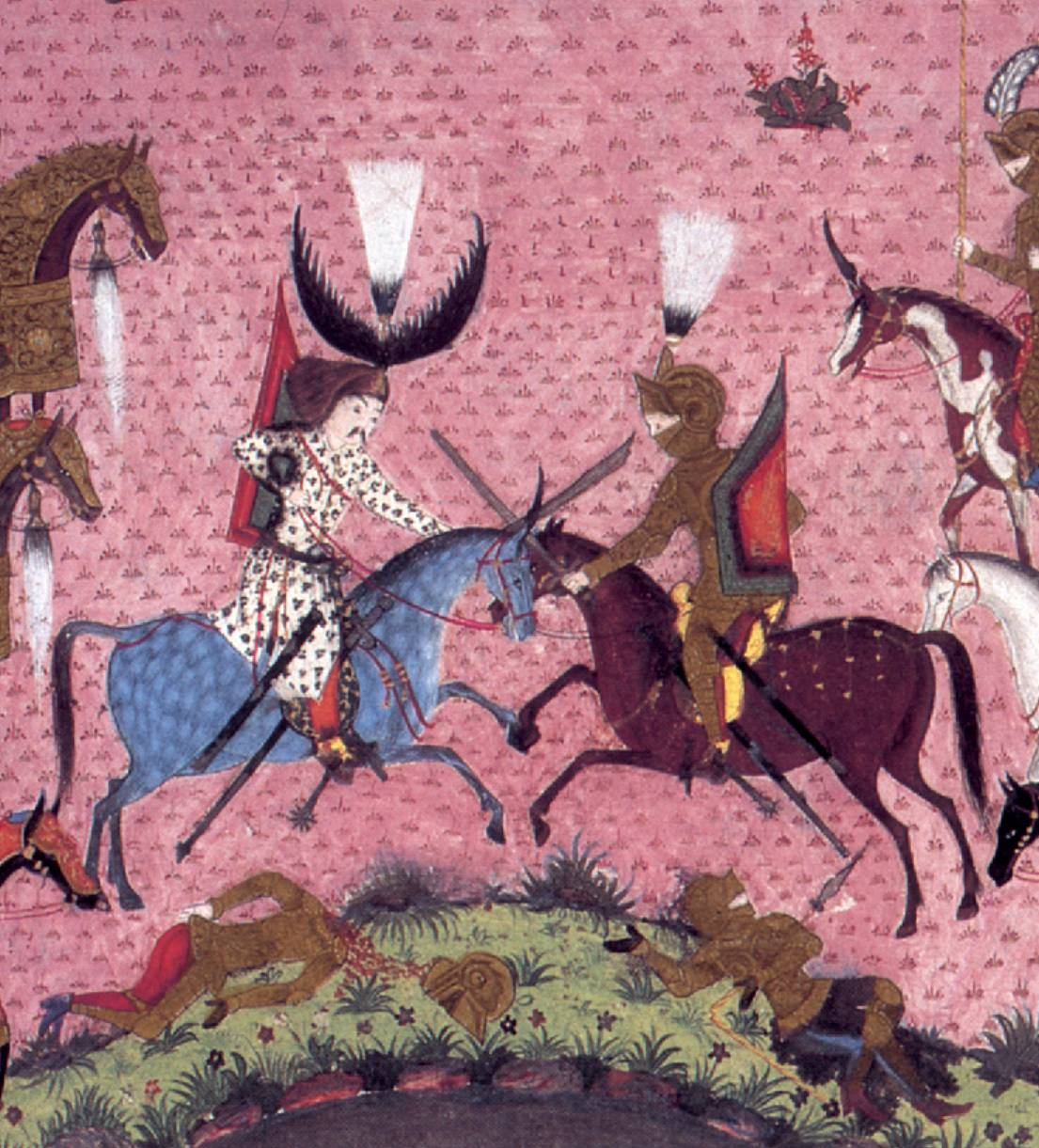 Osmanic miniature: Deli Sinan (left) fighting against the Hungarian Eugene. 1526